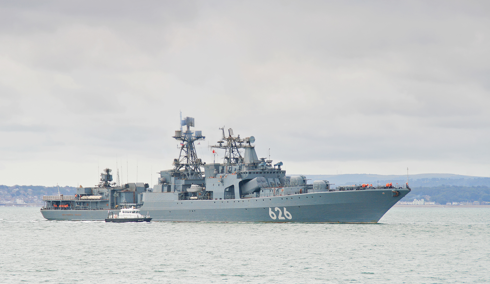 A Udaloy class destroyer of the Russian Federation Navy RFS Vitse Admiral Kulakov inward bound to Portsmouth Naval Base, UK, for a five-day visit, 24 August 2012. Vitse Admiral Kulakov has recently been deployed in the Indian Ocean on anti-piracy duty, and in late July 2012, led a flotilla of the Russian Northern Fleet to the Eastern Mediterranean to conduct naval drills, close to the Syrian coast. Image uploaded by me User:George.Hutchinson from a photograph taken by and supplied by Brian Burnell. Wikipedia editors are reminded that the copyright remains with the photographer, and that the terms of the Creative Commons licence; that allow editors to reuse this image apply to Wikipedia editors also, as they do to other re-users of this image. Breaches of the licence terms are not only unlawful, but are also antisocial, in that breaches discourage photographers from making their images freely available to everyone without payment. Wikipedia re-users are also reminded of the license terms that derivatives of this image should not imply that the adaptation is endorsed or approved by the author or copyright holder. Neither should derivatives be presented as the creation of the author or copyright holder, while clearly stating that the adaptation is a derivative of the original. Attribution online should be in this format Brian Burnell. On the printed page, a simpler form is acceptable - example: "Image: Brian Burnell". Non-Wikipedia users are requested to advise Brian Burnell of its use other than on Wikipedia.